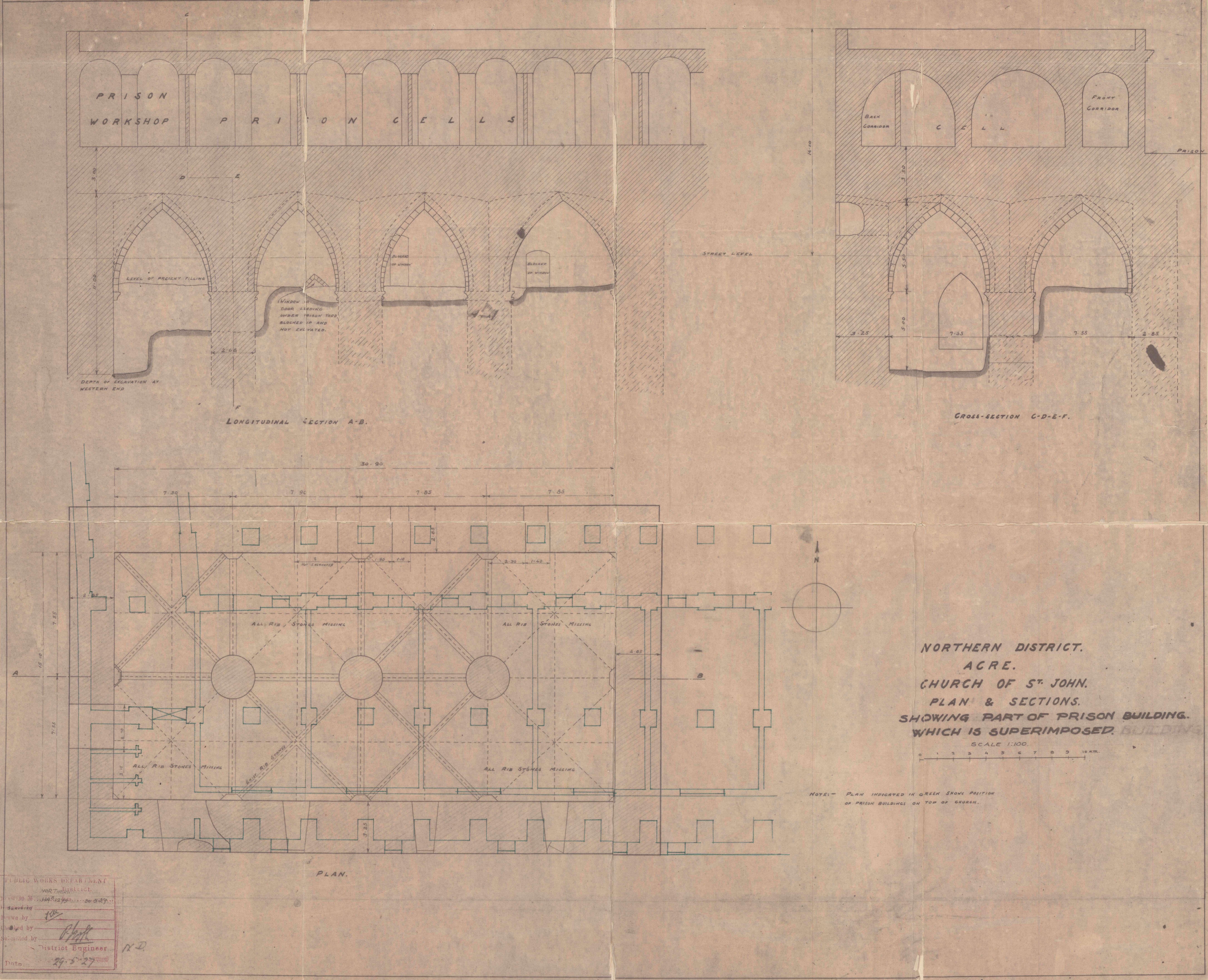 Church of St. John: Plan & Sections. Showing Part of Prison Building which is Superimposed.